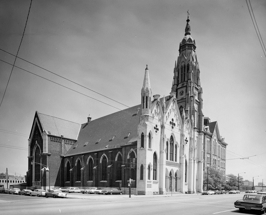 Holy Family Church (Roman Catholic), 1104-1114 West Roosevelt Road, Chicago (Cook County, Illinois)